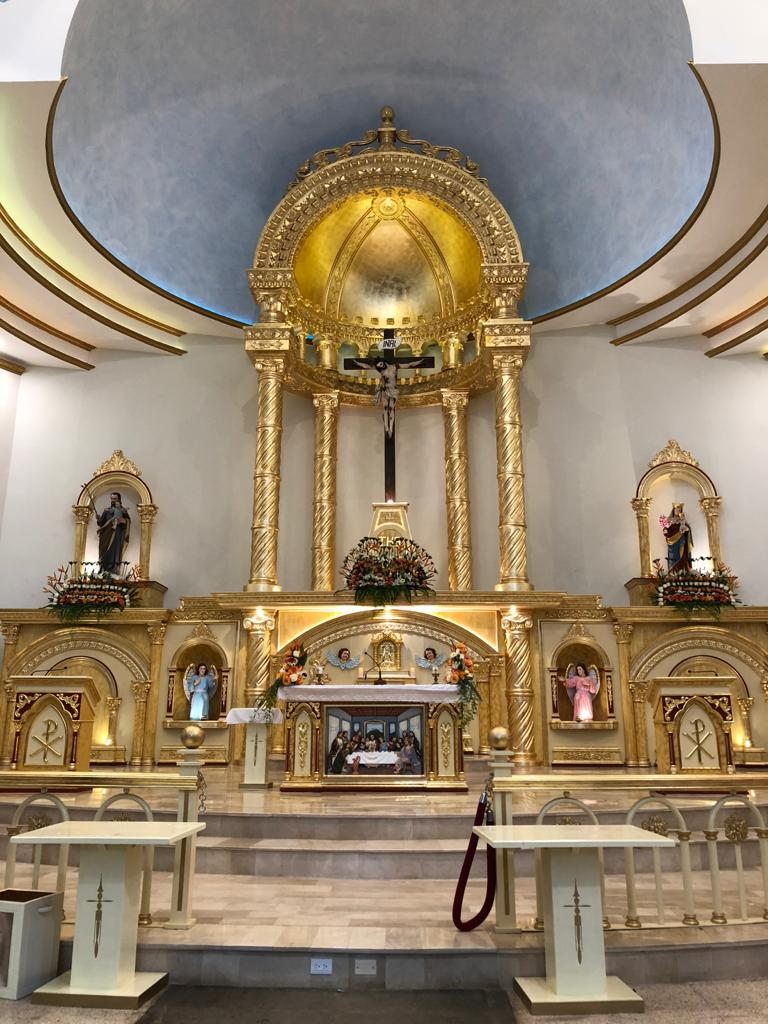 Altar del la Iglesia de Paute